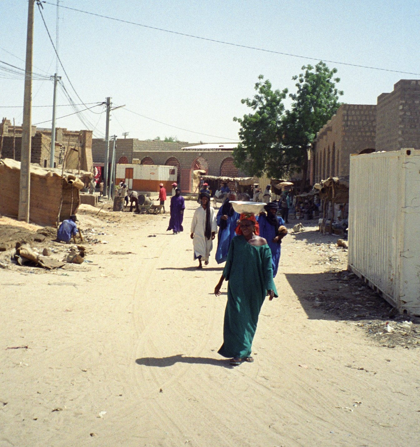 People on a street in Timbuktu